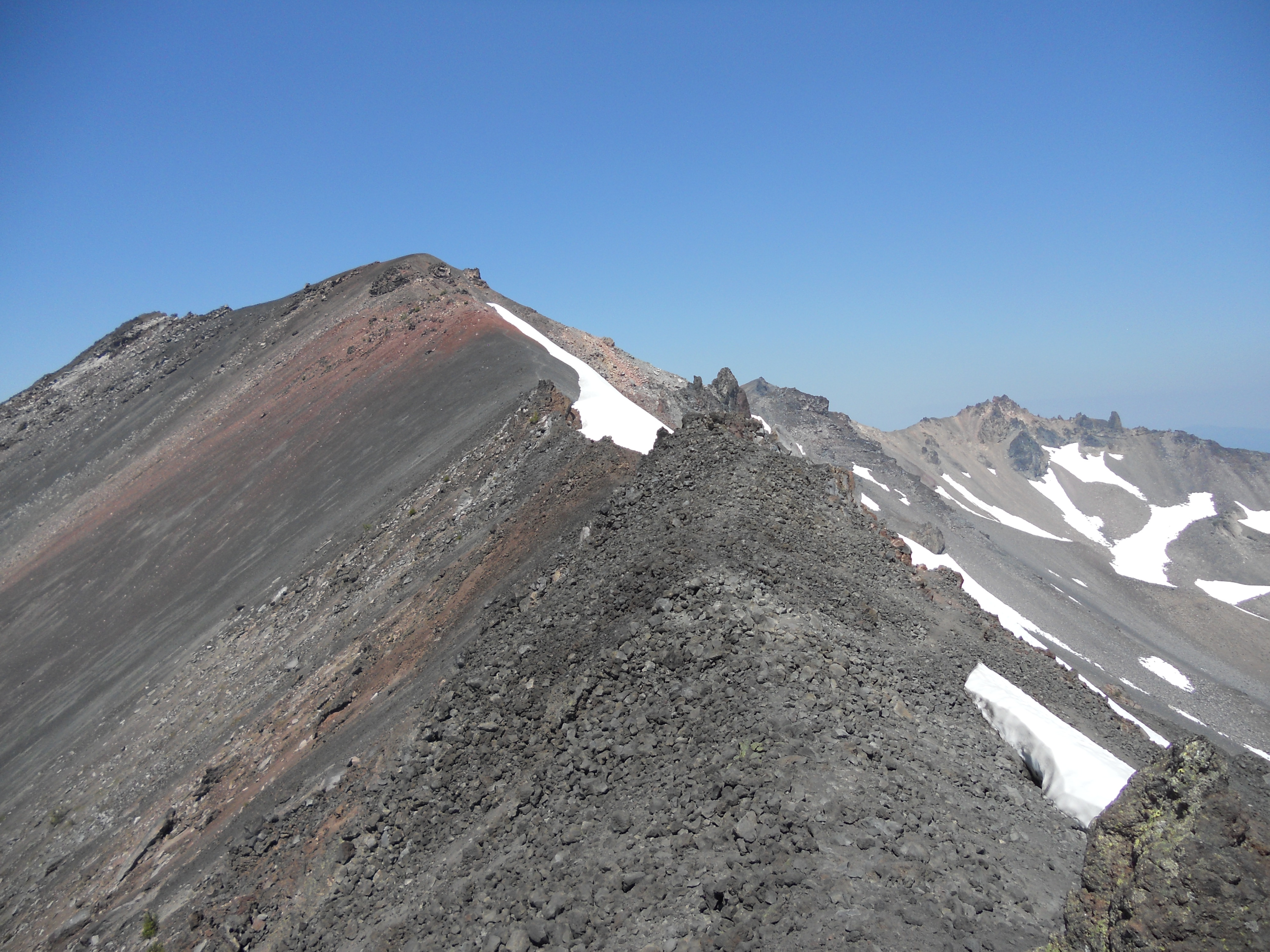 The view up the ridge to the summit on the western side of Diamond Peak in the Oregon Cascades